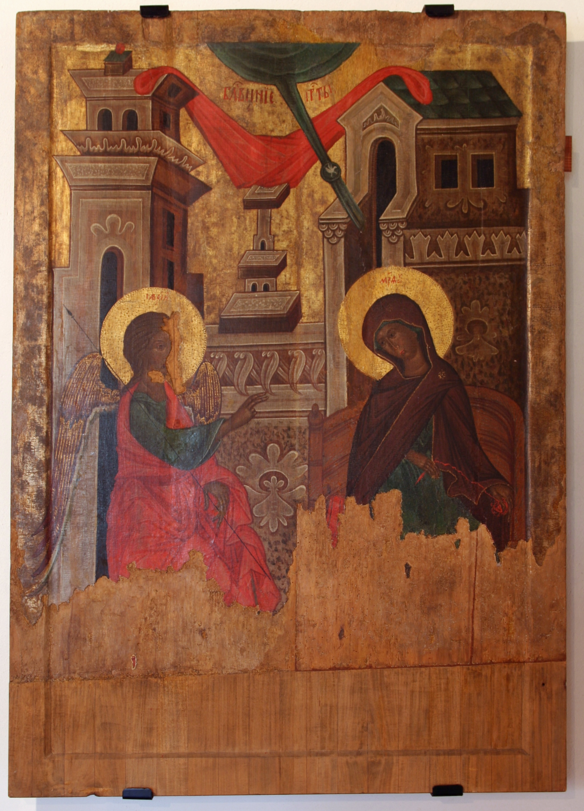 The Annunciation - an icon of 15th cent. from Witryłów, Historic Museum in Sanok, Poland